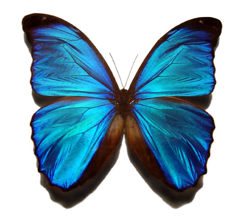 Photograph of a Blue Morpho butterfly (Morpho menelaus). Prepared specimen wingspan is approx. 10 cm (4 inches). Abdomen has been removed to prevent staining.